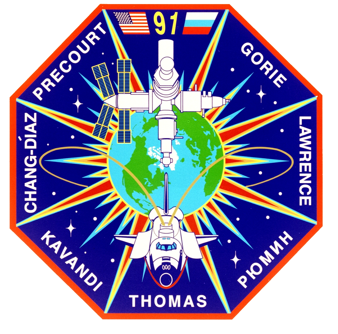 STS-91 CREW INSIGNIA (March 1998) --- This is the crew patch for the STS-91 mission -- the ninth flight of the Shuttle-Mir Phase One docking missions. The crew will bring back Andrew S. W. Thomas, the last long-duration American crew member flown on the Russian Space Station Mir. This mission marks the end of the Shuttle-Mir Phase One Program and will open the way for Phase Two: construction of the International Space Station (ISS). The crew patch depicts the rendezvous of the Space Shuttle Discovery with the Space Station Mir. The flags of the United States and Russia are displayed at the top of the patch and both countries are visible on the Earth behind the two spacecraft. The names of the American crew members surround the insignia on the outer areas, with the name of cosmonaut Valery Ryumin in Cyrillic at the lower right. The Alpha Magnetic Spectrometer (AMS) is an international payload planned to fly in the payload bay of Discovery. Two thin golden streams flowing into the AMS represent charged elementary particles. The detection of antimatter in space will help scientists better understand the physics and origins of the universe.